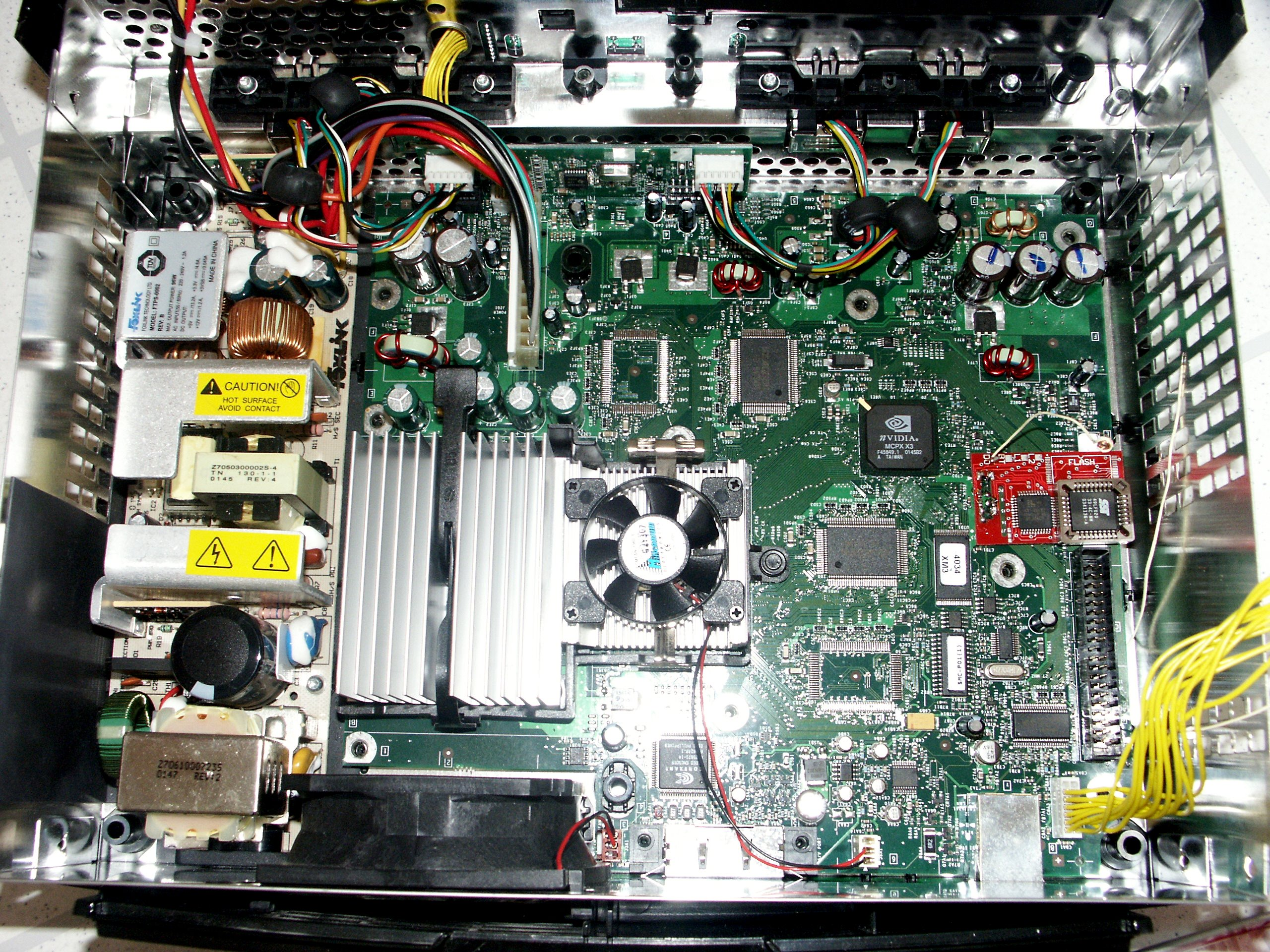 Xbox Platine